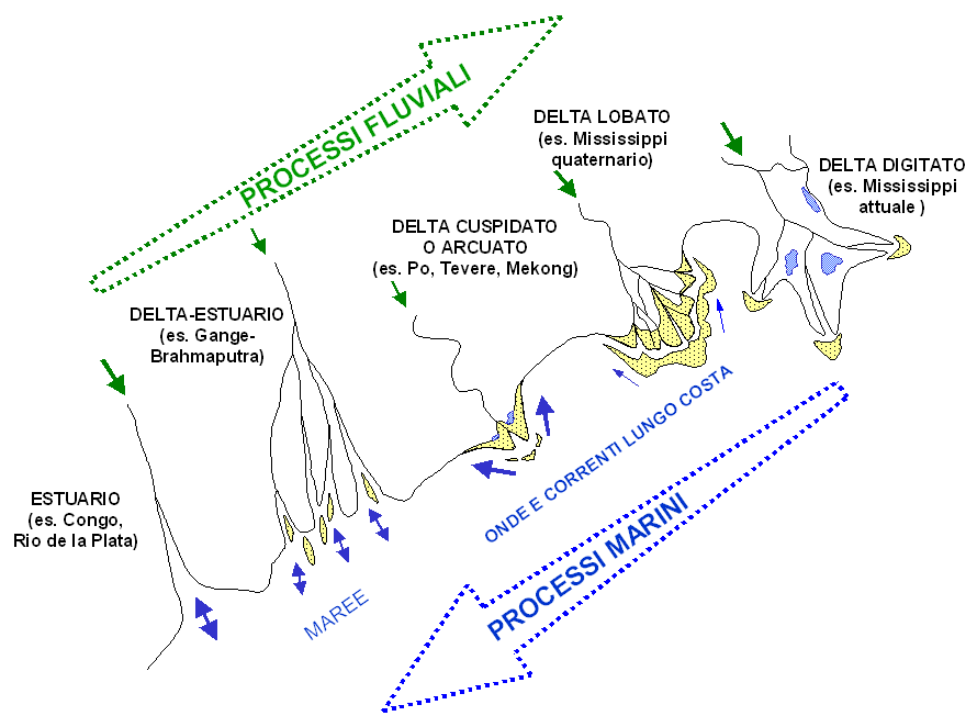 Types of deltaic systems - conceptual scheme. Text in Italian